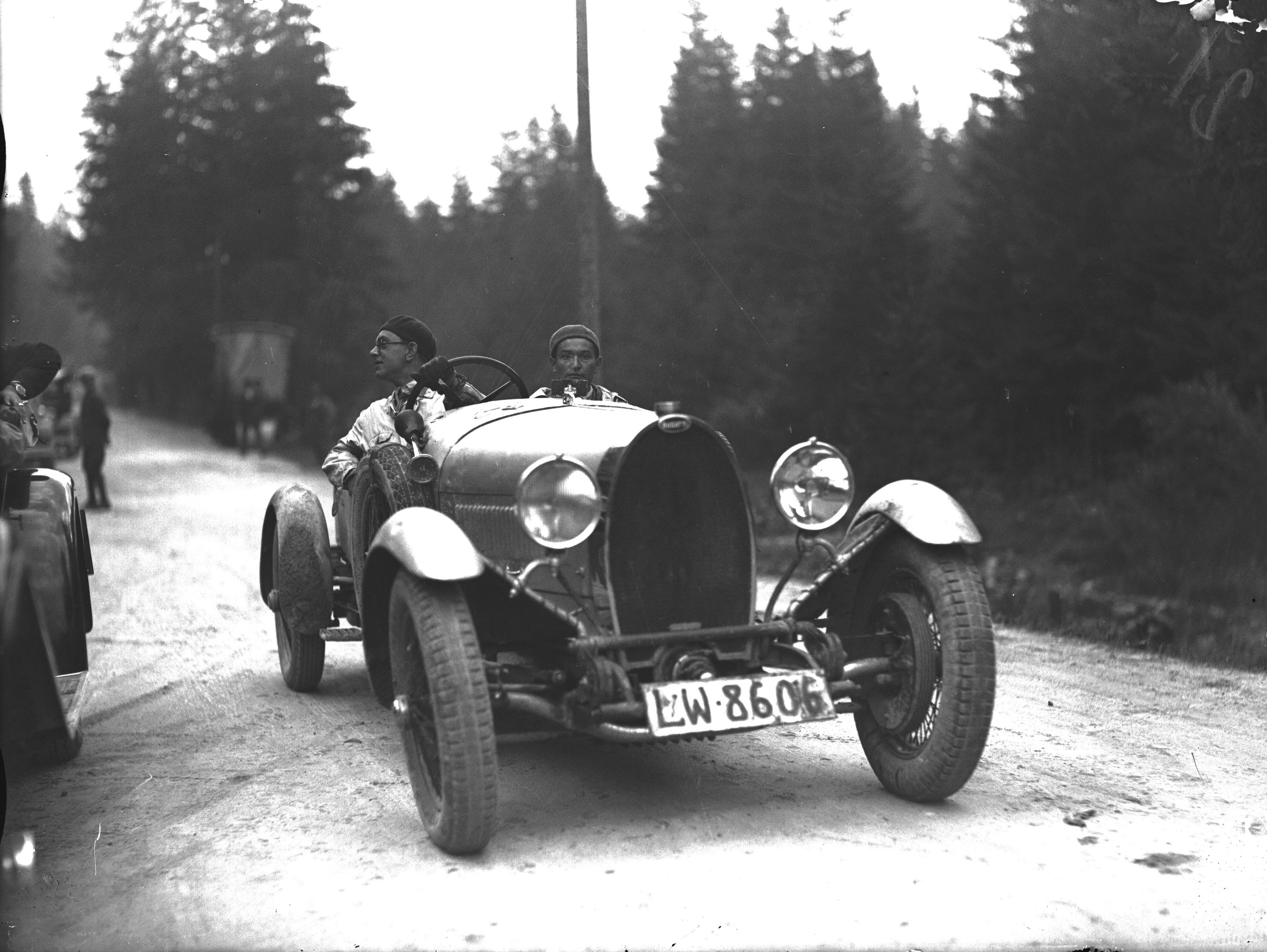 3rd International Tatra Rally, Poland, August 1930.